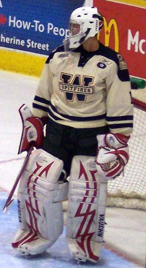 Self-taken photo of Andrew Engelage of Windsor Spitfires